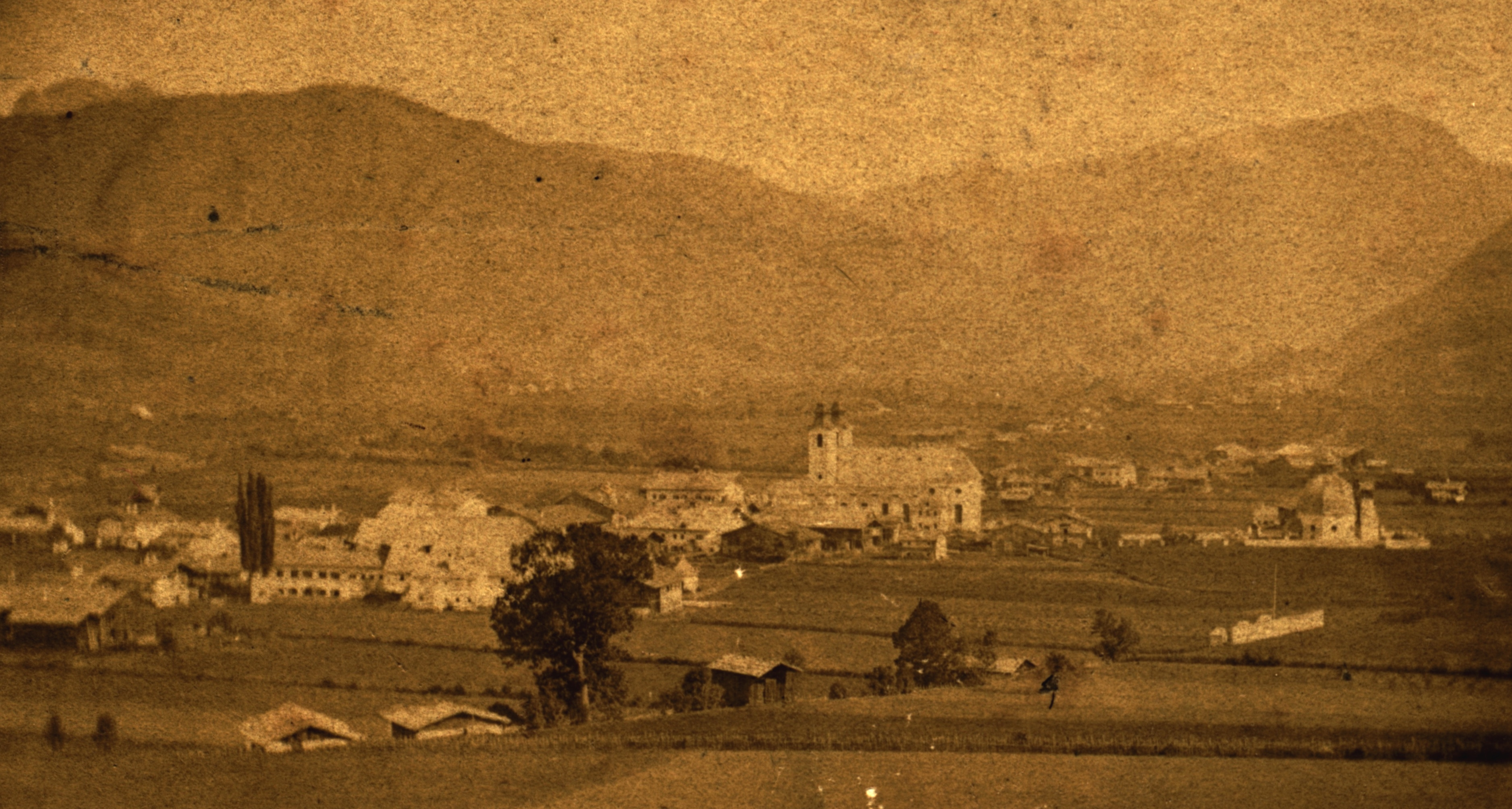 Oldest photography of St. Johann in Tirol 1870